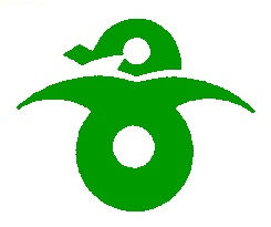 Yachiyo Ibaraki chapter